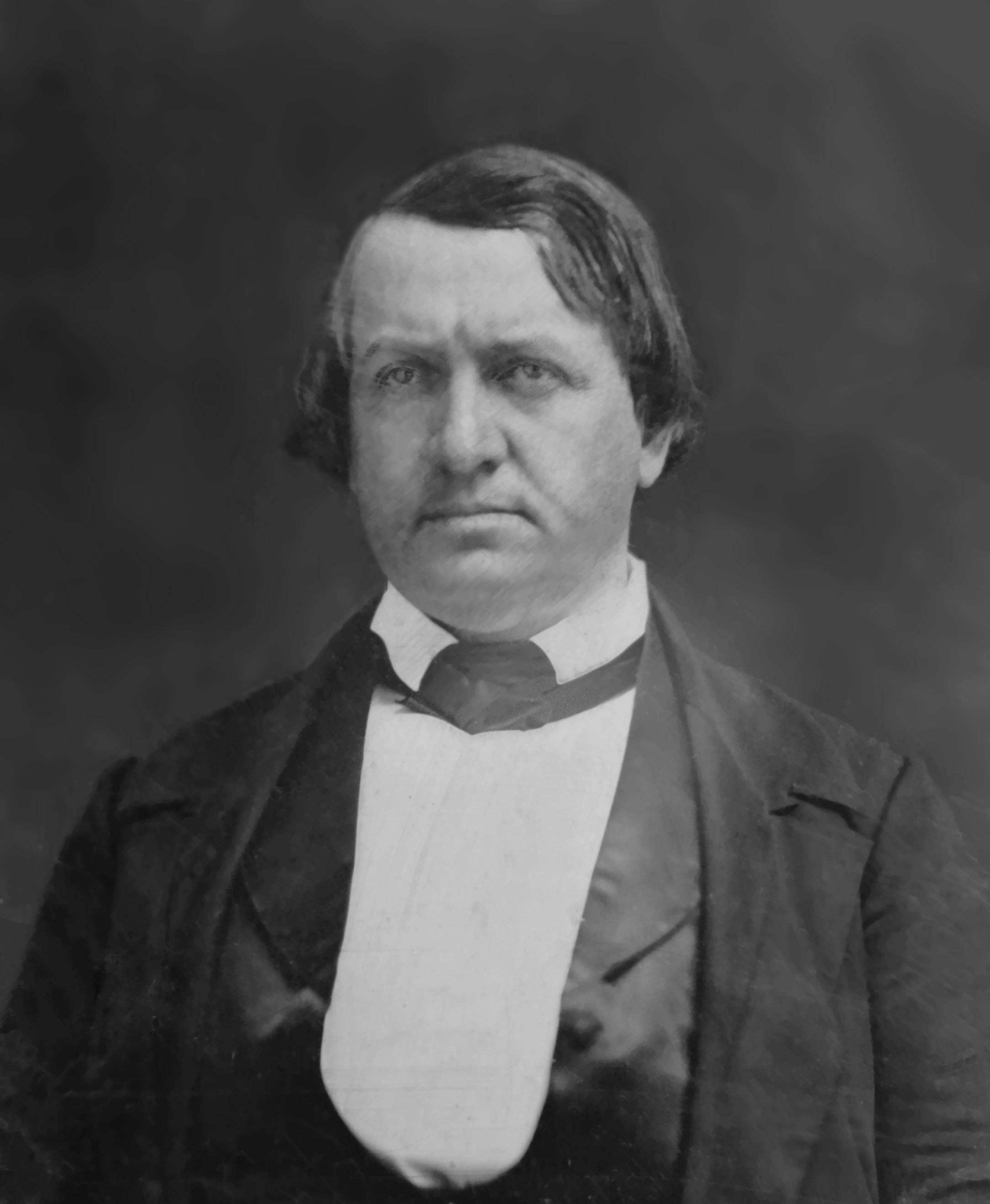 John P. Hale, Democratic Congressman from New Hampshire, 1843-1845, 1847-1853, 1855-1865; Free Soil candidate for President, 1852.